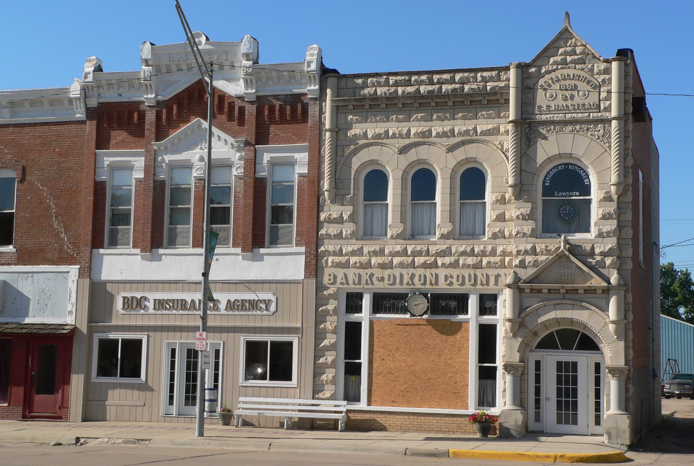 Buildings on south side of 3rd Street between East and Union Streets in Ponca, Nebraska. This block of 3rd is part of the Ponca Historic District, which is listed in the National Register of Historic Places. At right is the Bank of Dixon County, built in Richardsonian Romanesque style in 1901. The building east of it, now occupied by the BDC Insurance Agency, is the Halstead Commercial Building, built in 1886.